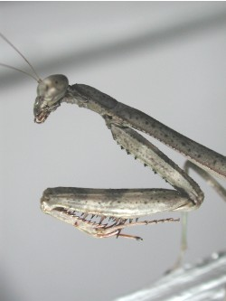 Carolina Mantis (Stagmomantis carolina)